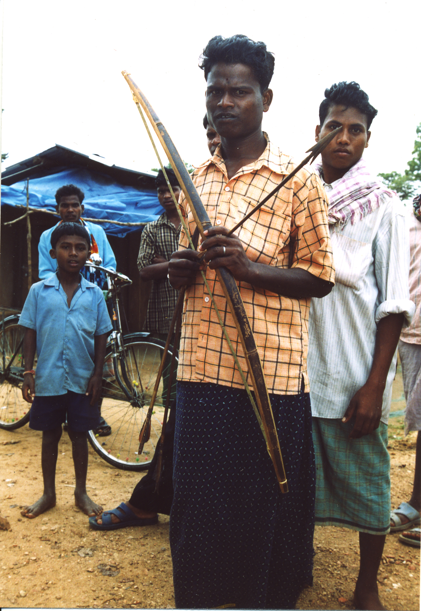 Salwa Judum soldiers in Chhattisagrh